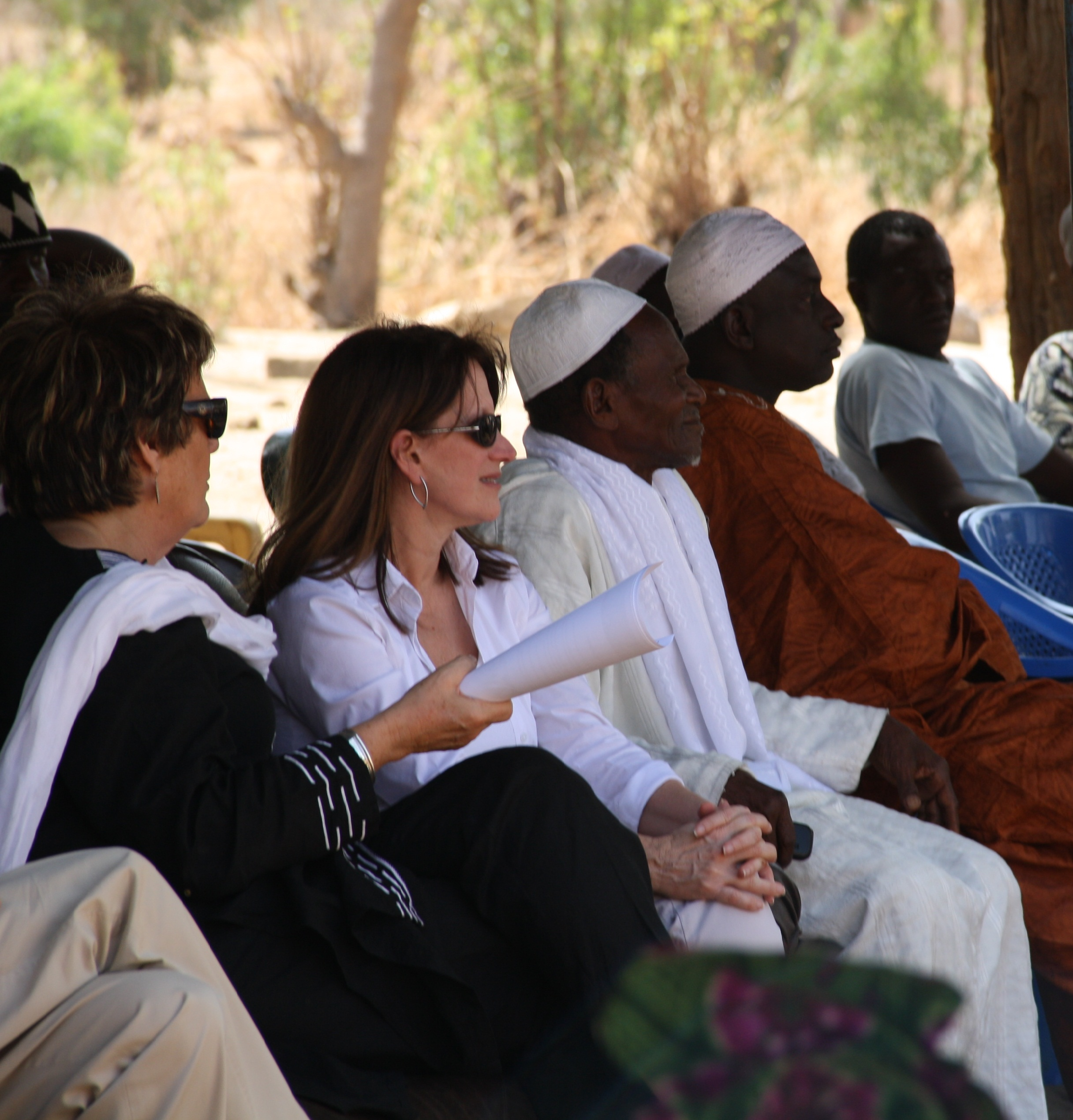 (l-r) Molly Melching, Tostan founder, Lynne Featherstone, Demba Diawara, Imam and Keur Simbara Village Chief, and Khalidou Sy, National Coordinator of Tostan Senegal, watch the presentations. In March the UK committed to help end female genital cutting within a generation. Find out more: Picture: James Fulker/DFID